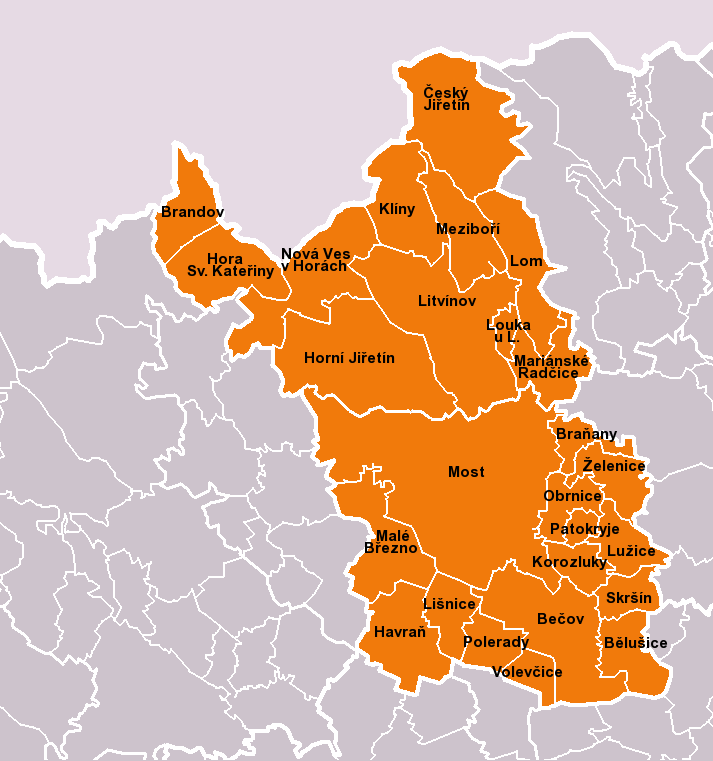 Municipalities of Most District as of January 1, 2010 (26 municipalities in total). White lines of variable thickness show boundaries of municipalities, administrative areas, districts and nations.